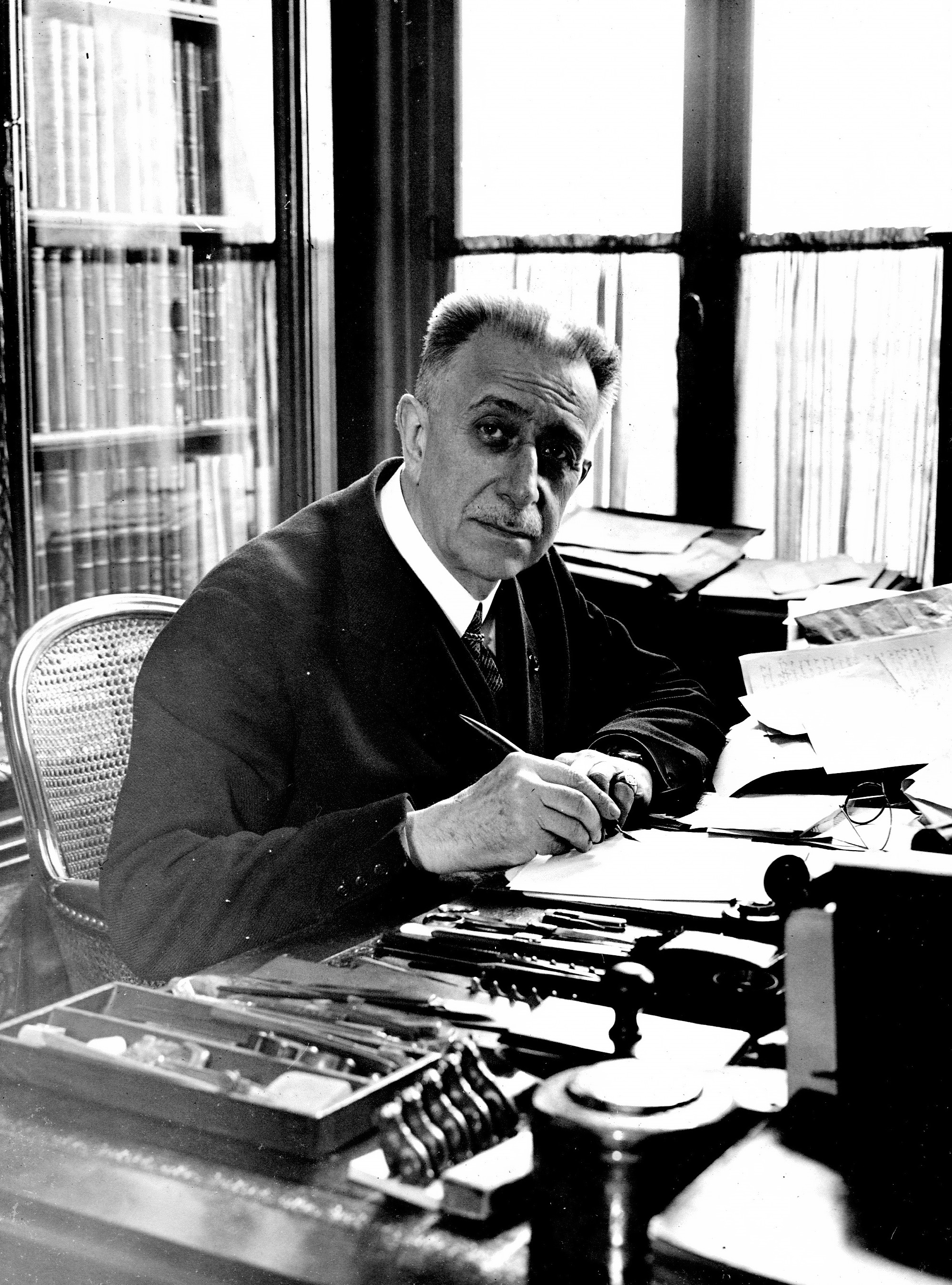 Maurice d'Ocagne, French mathematician, author of Nomography.